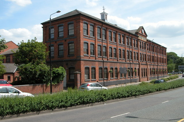 The Fownes Hotel, Worcester. The Fownes Hotel is situated on the side of City Walls Road. In the mid 1980s the building was converted into a hotel from a derelict Victorian factory building. The building used to house the Fownes Glove Factory.